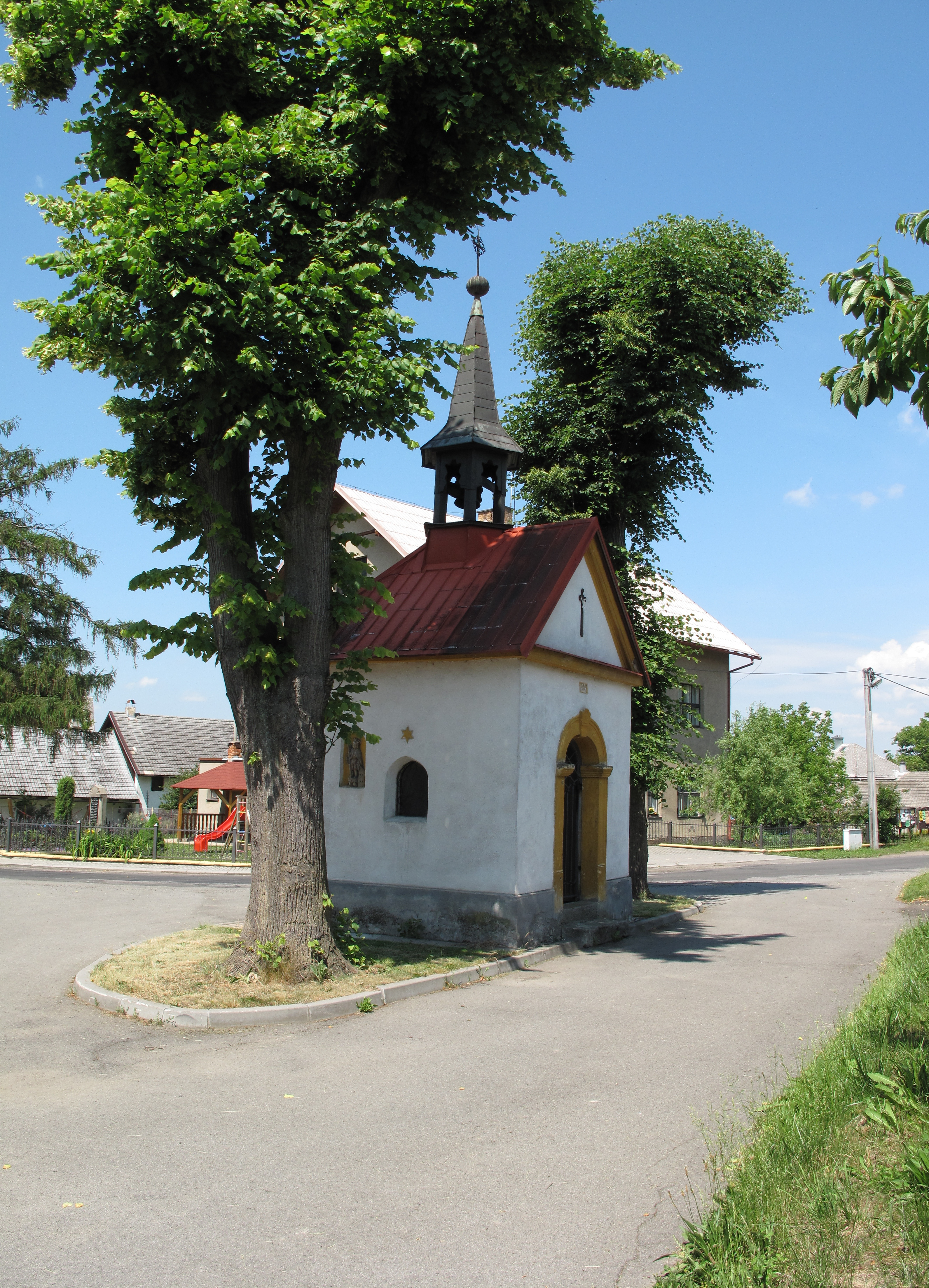 Village chapel in Volavec village, Semily District, Czech Republic.